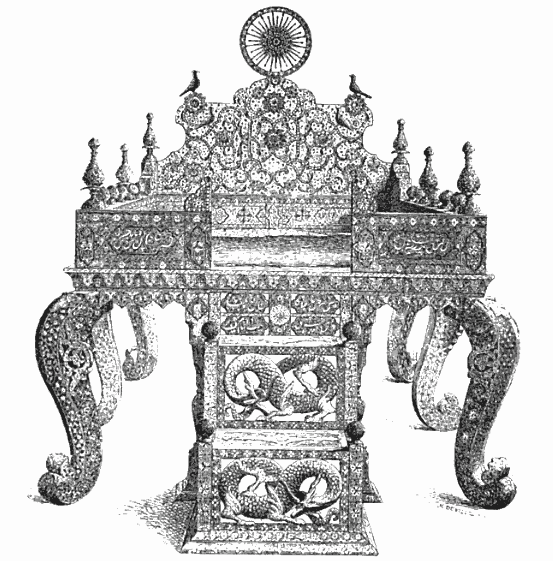 Throne of Fath Ali Shah, also known as the "Sun Throne".